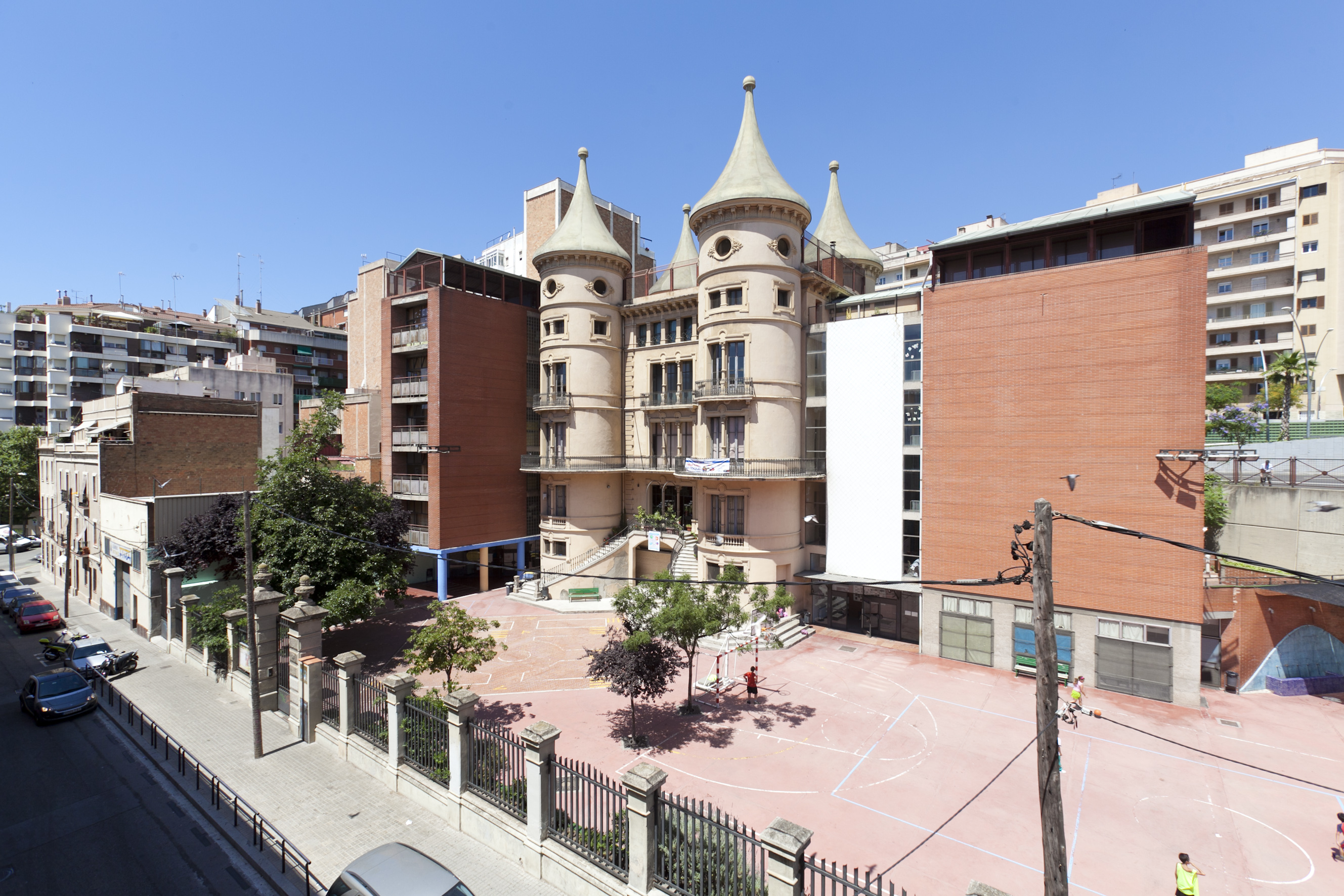 Historical Routes at the Horta-Guinardó District Administration in Barcelona This image was provided to Wikimedia Commons by the Horta-Guinardó District Administration in Barcelona as part of an ongoing cooperative project with Amical Viquipèdia. English | +/−